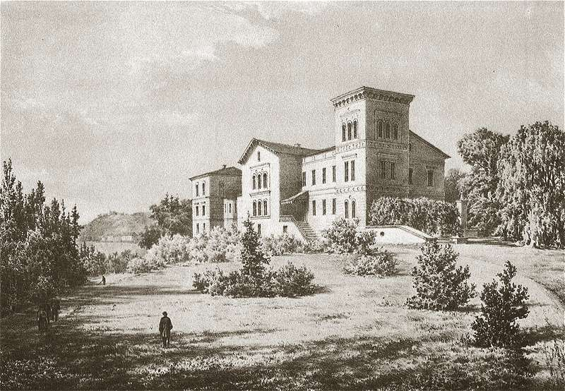 Belvederis manor in 19th century